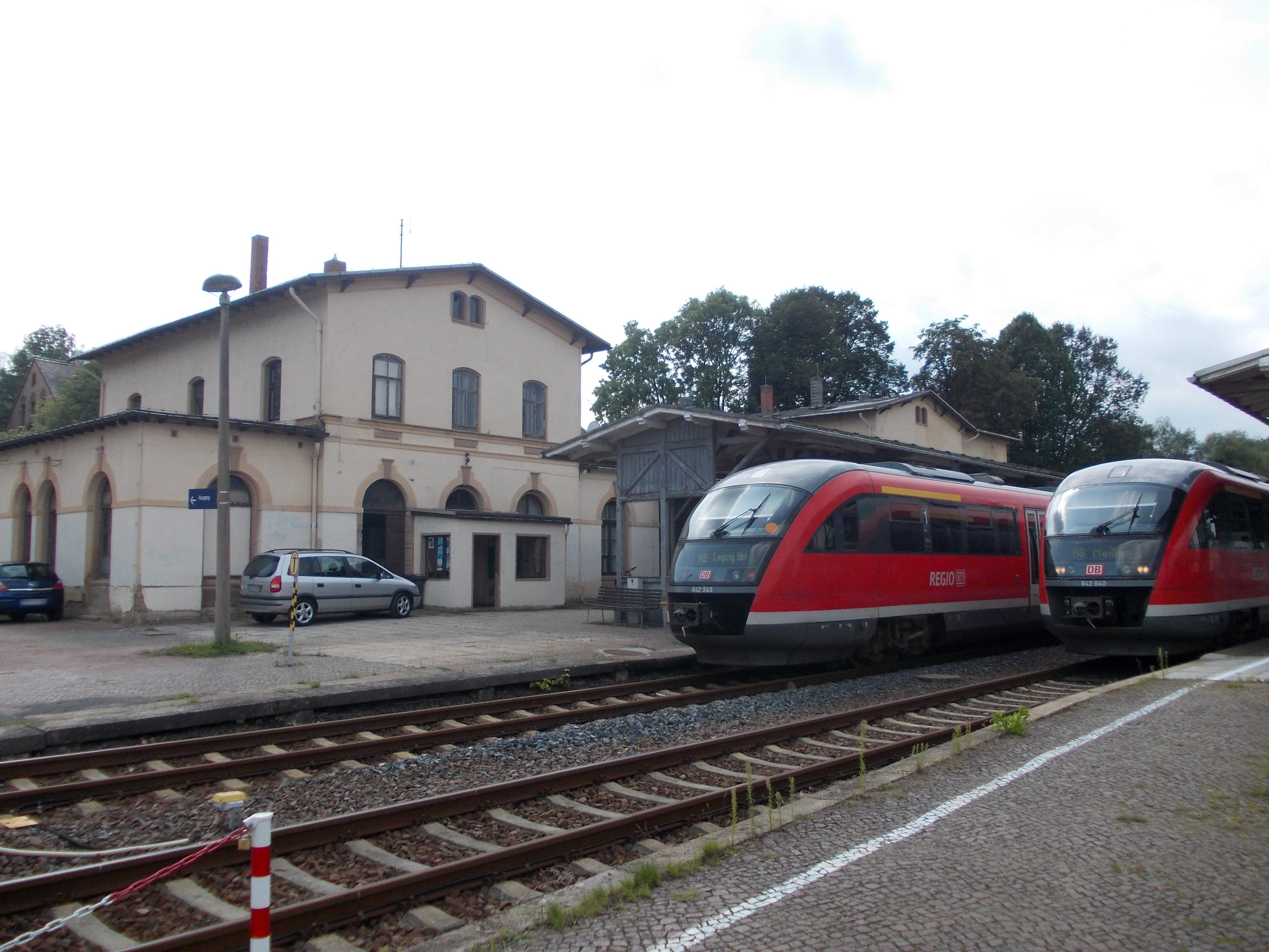 Nossen train station (Meissen district, Saxony)